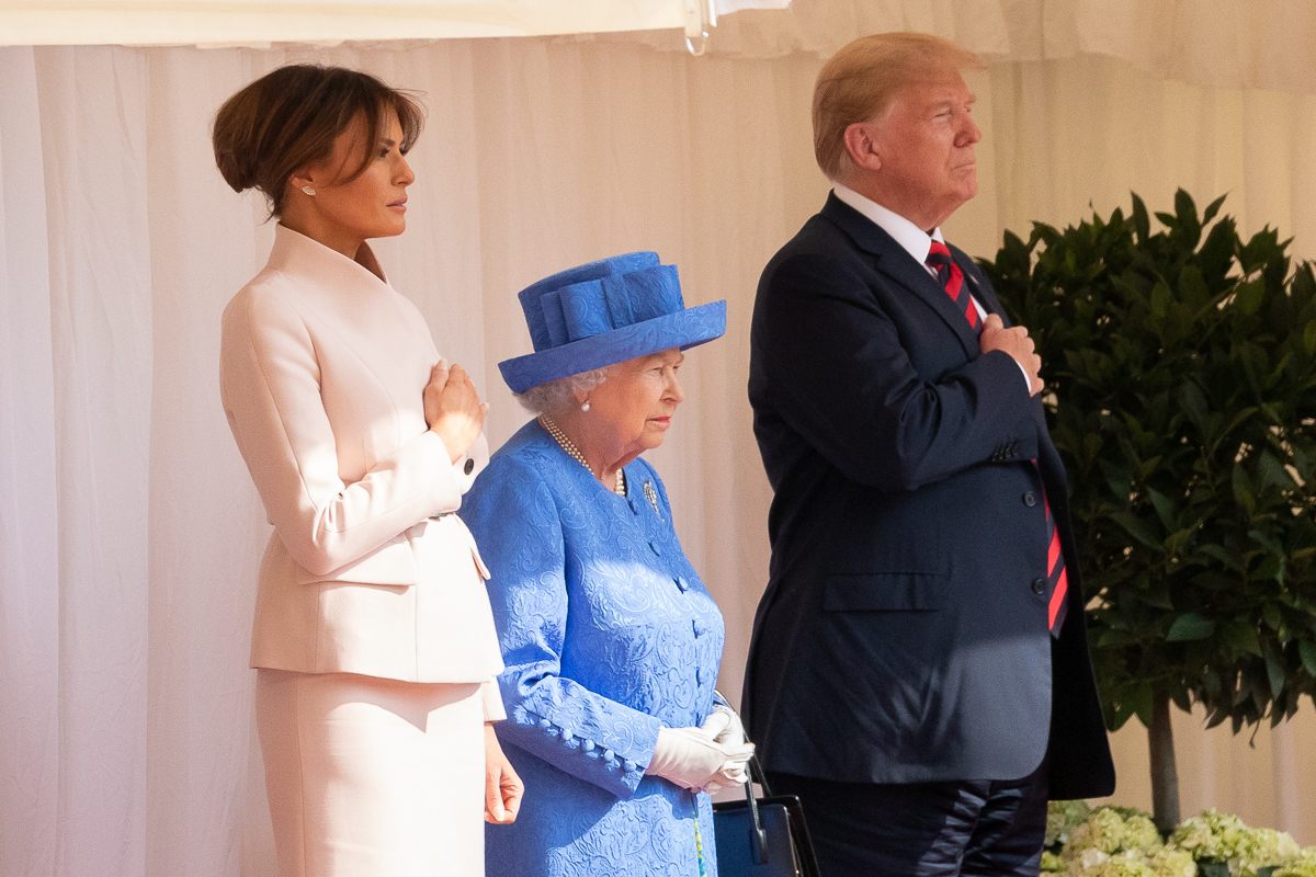 President Donald J. Trump and First Lady Melania Trump visit with Her Majesty Queen Elizabeth II / July 13, 2018 (Official White House Photo by Andrea Hanks)